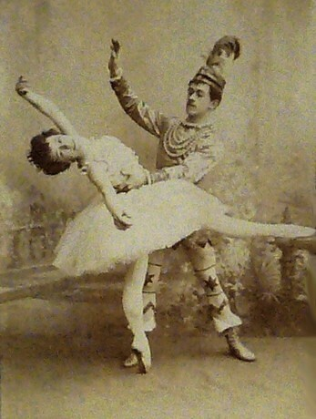 Photographic postcard of the ballerina Olga Preobrajenskaya (1871-1962) as the Sugarplum Fairy & the danseur Nikolai Legat (1869-1937) as Prince Coqueluche in the Imperial Ballet's original production of the choreographers Marius Petipa (1818-1910) & Lev Ivanov (1834–1901) & the composer Pyotr Ilyich Tchaikovsky's (1840-1893) 1892 ballet "The Nutcracker".